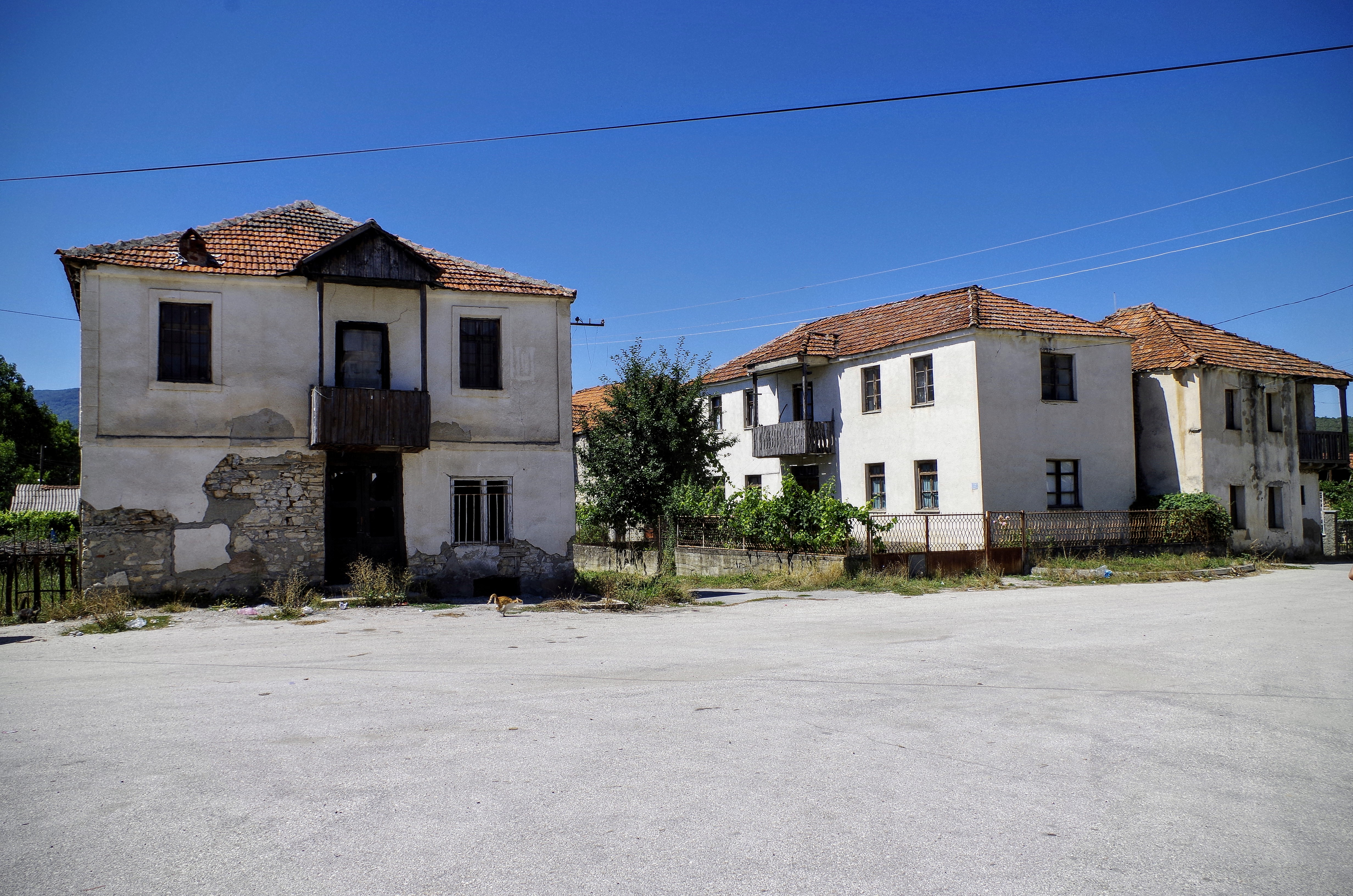 View in the village Belčišta, Macedonia